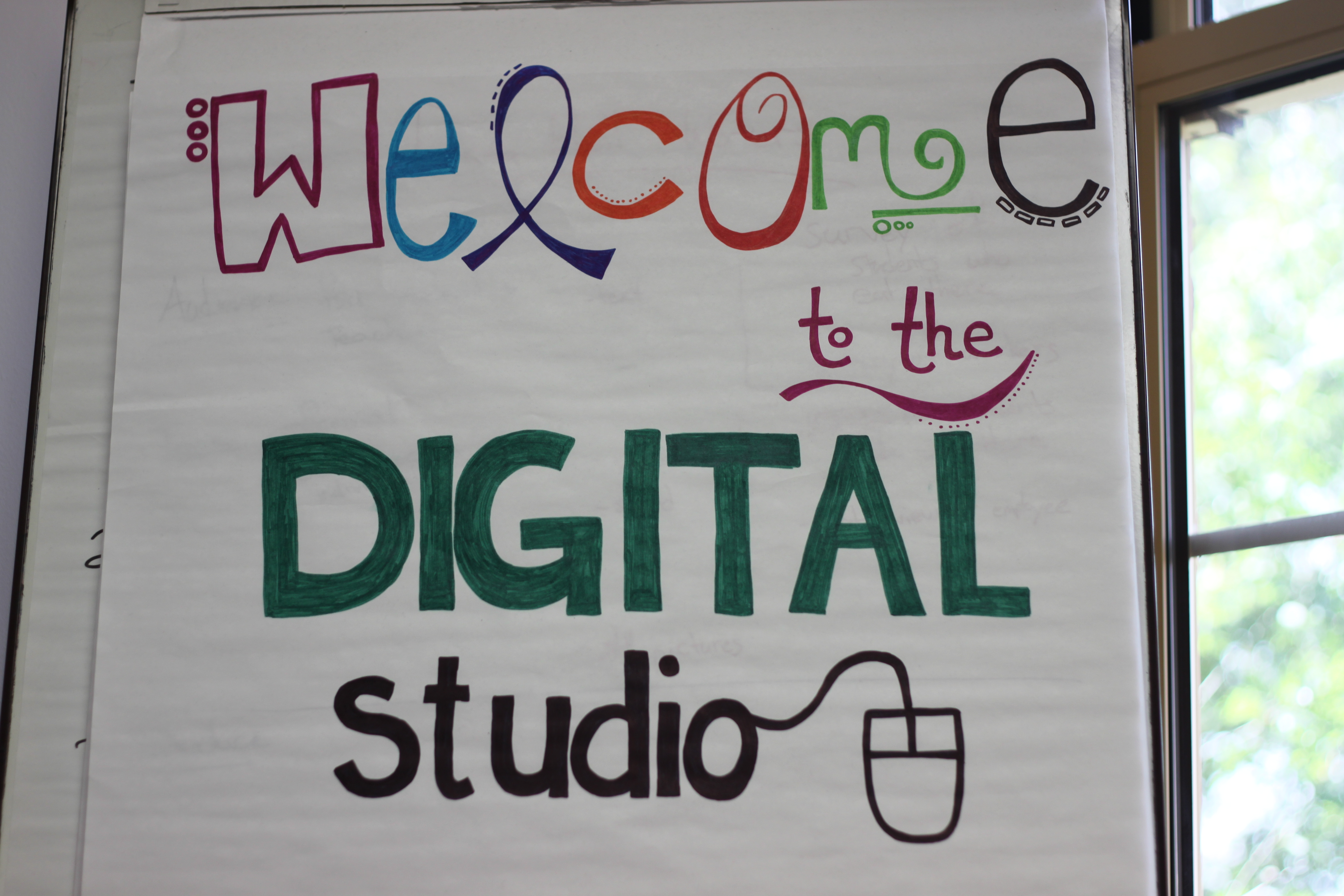 photograph of FSU Digital Studio sign by Natalie Szymanski (permission granted)